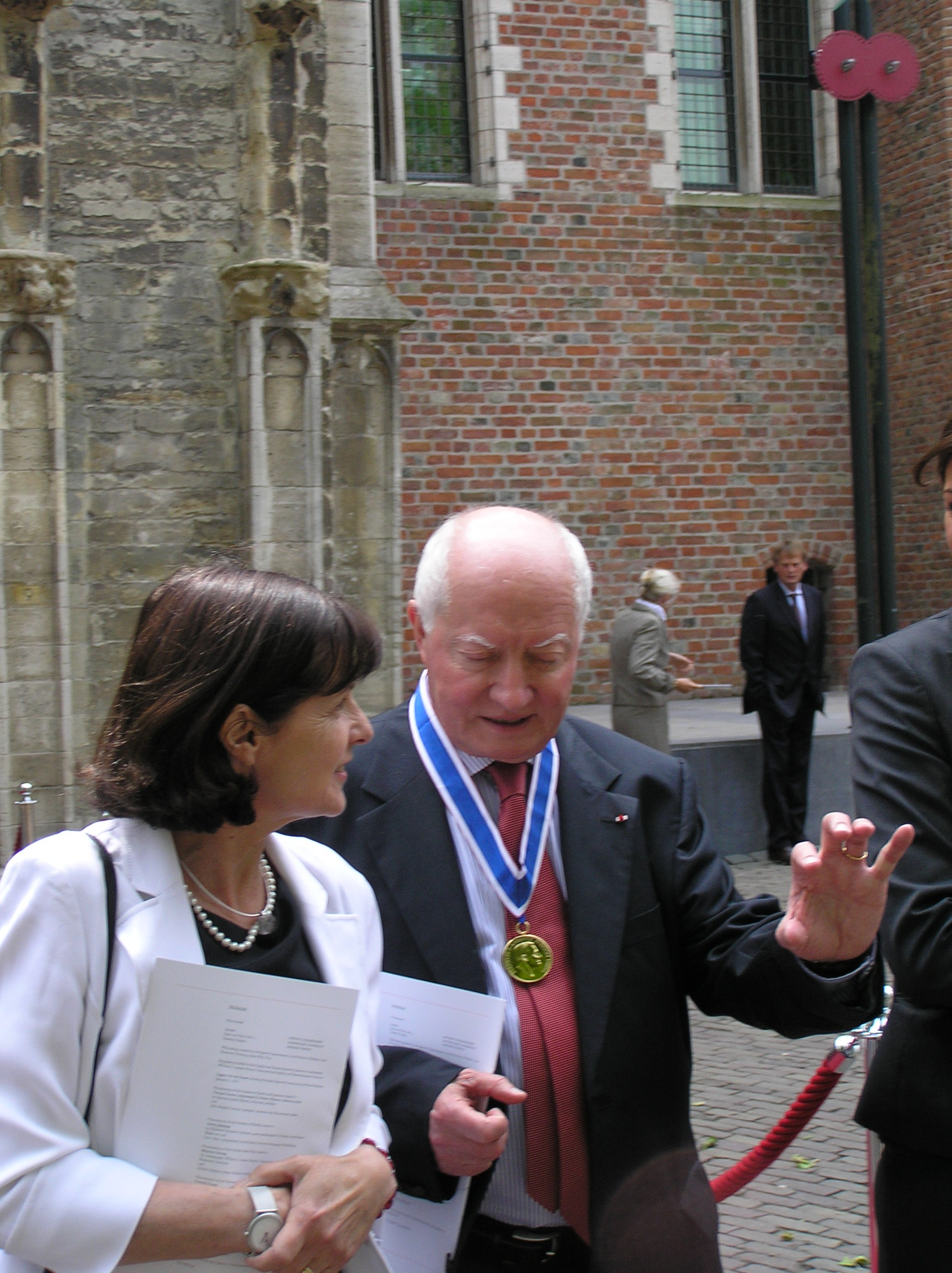 Jean-Paul Costa, shortly after having received the International Four Freedoms Award on behalf of the European Court of Human Rights, in Middelburg, the Netherlands, 29th of May 2010.